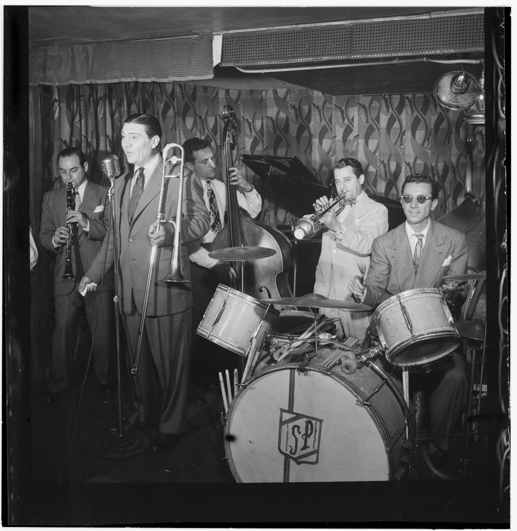 Jack Teagarden, Peanuts Hucko, Jack Lesberg, and Max Kaminsky, Famous Door, New York, N.Y., ca. July 1947